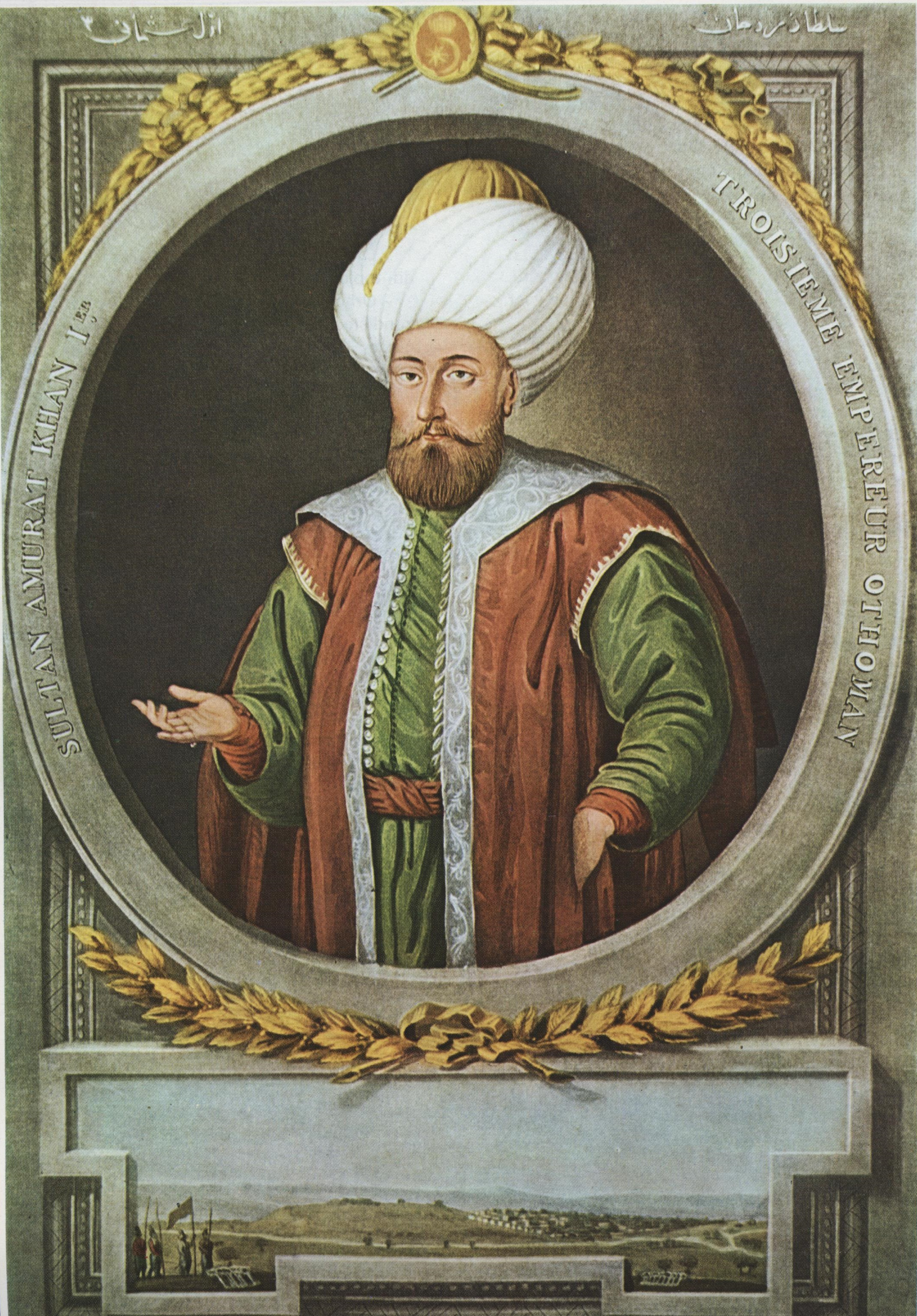 Murat I